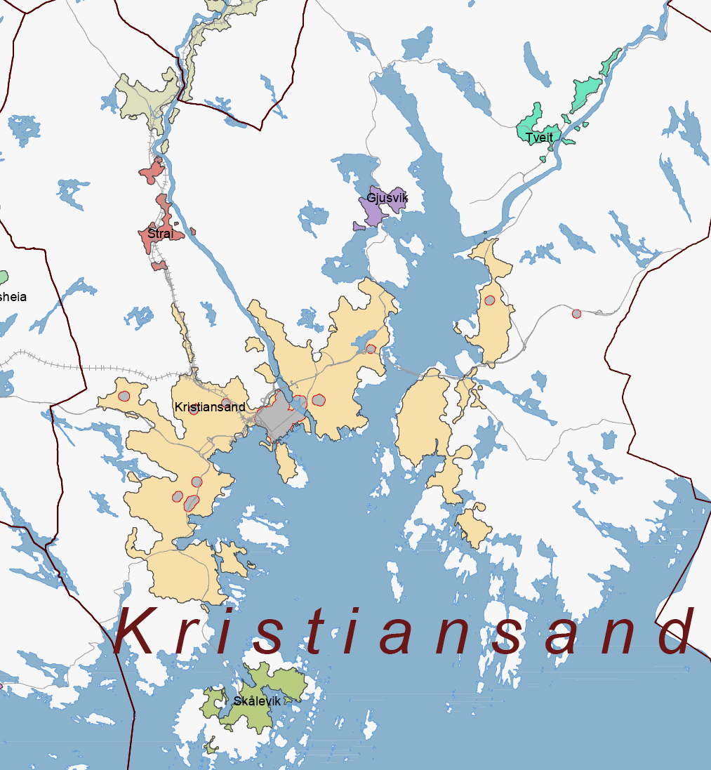 Map of urban area of Kristiansand in Norway